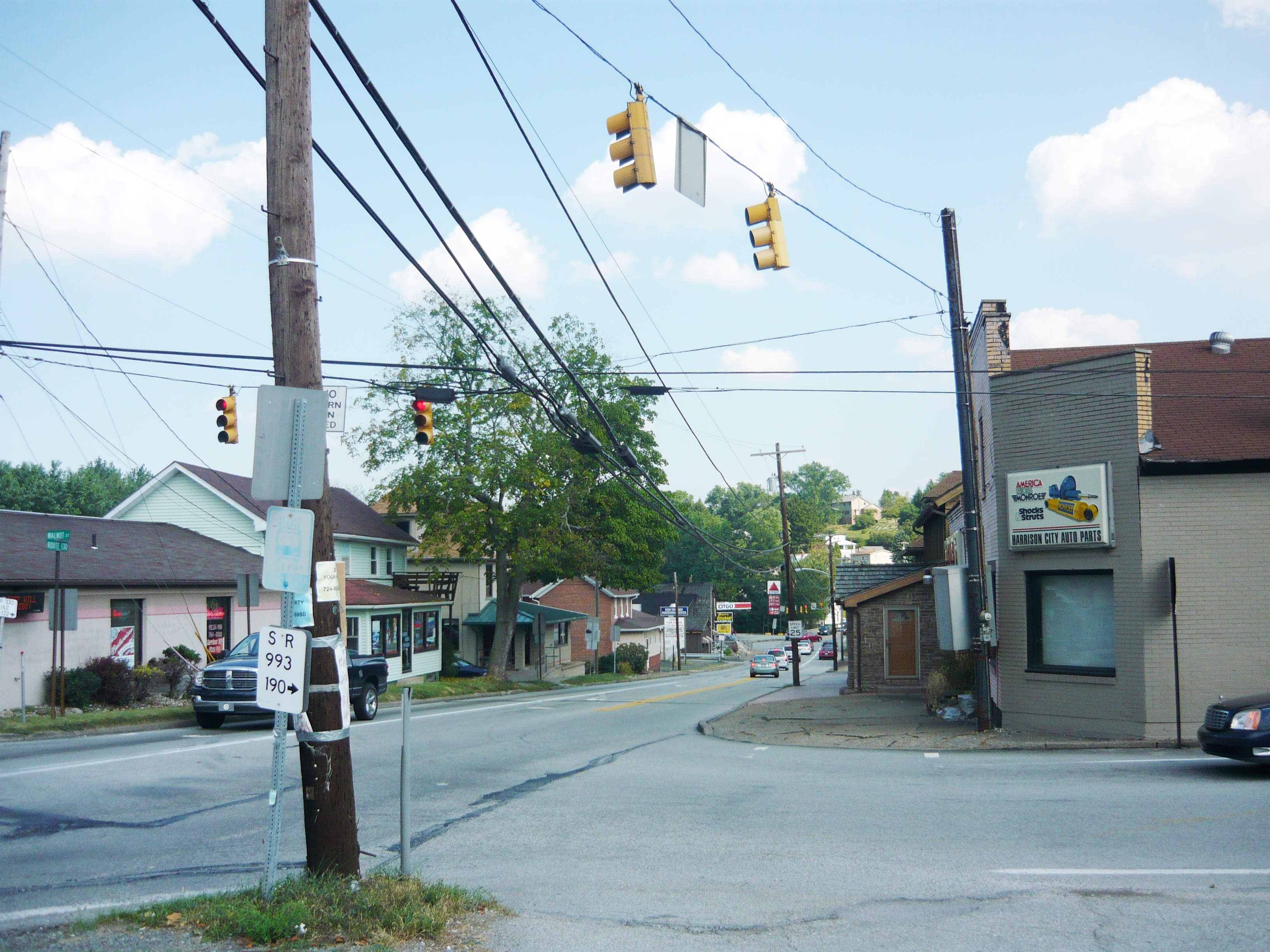 Business district of Harrison City, Westmoreland County, Pennsylvania, looking eastward on Harrison City-Jeannette Road (Pennsylvania Route 130).